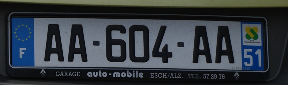 French License Plate, new System, with an optional sticker for the department (51 - Marne)